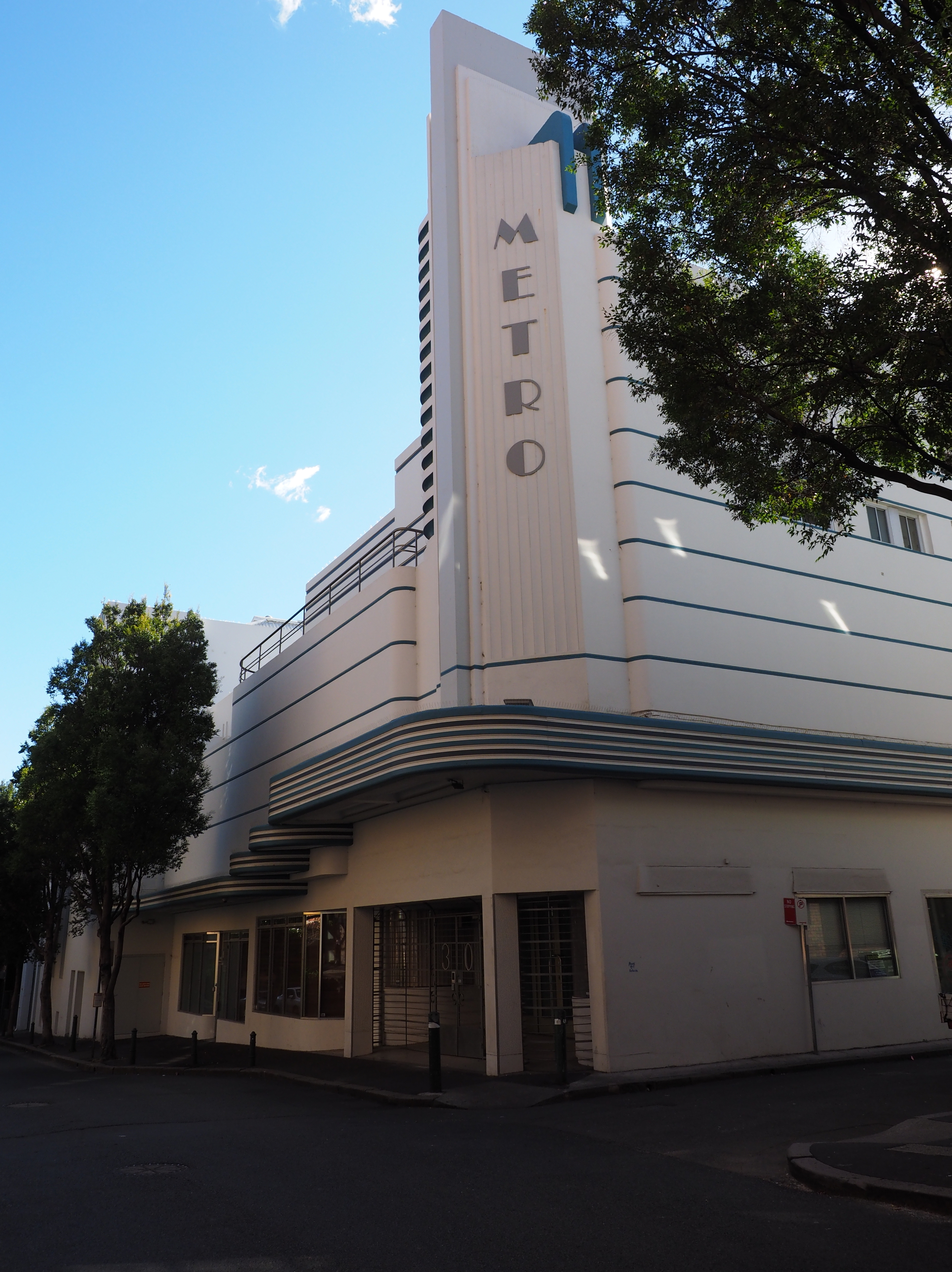 The former Metro and Minerva Theatres in Potts Point